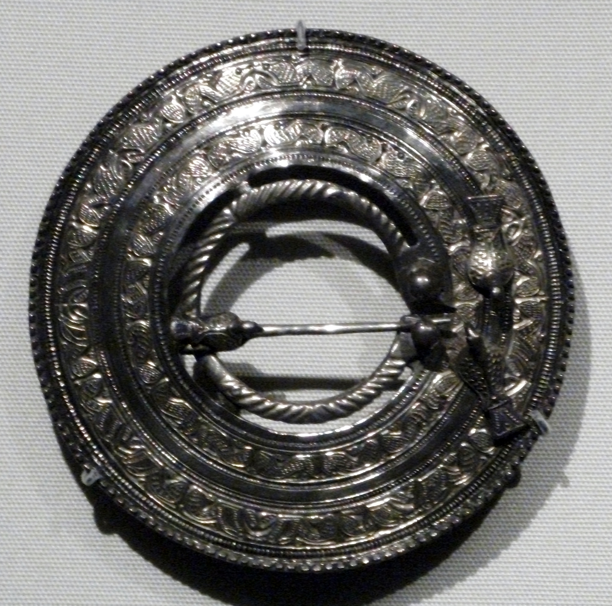 British Museum, Room 41. New display from 2014